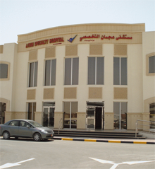 Ajman Specialty General Hospital Building